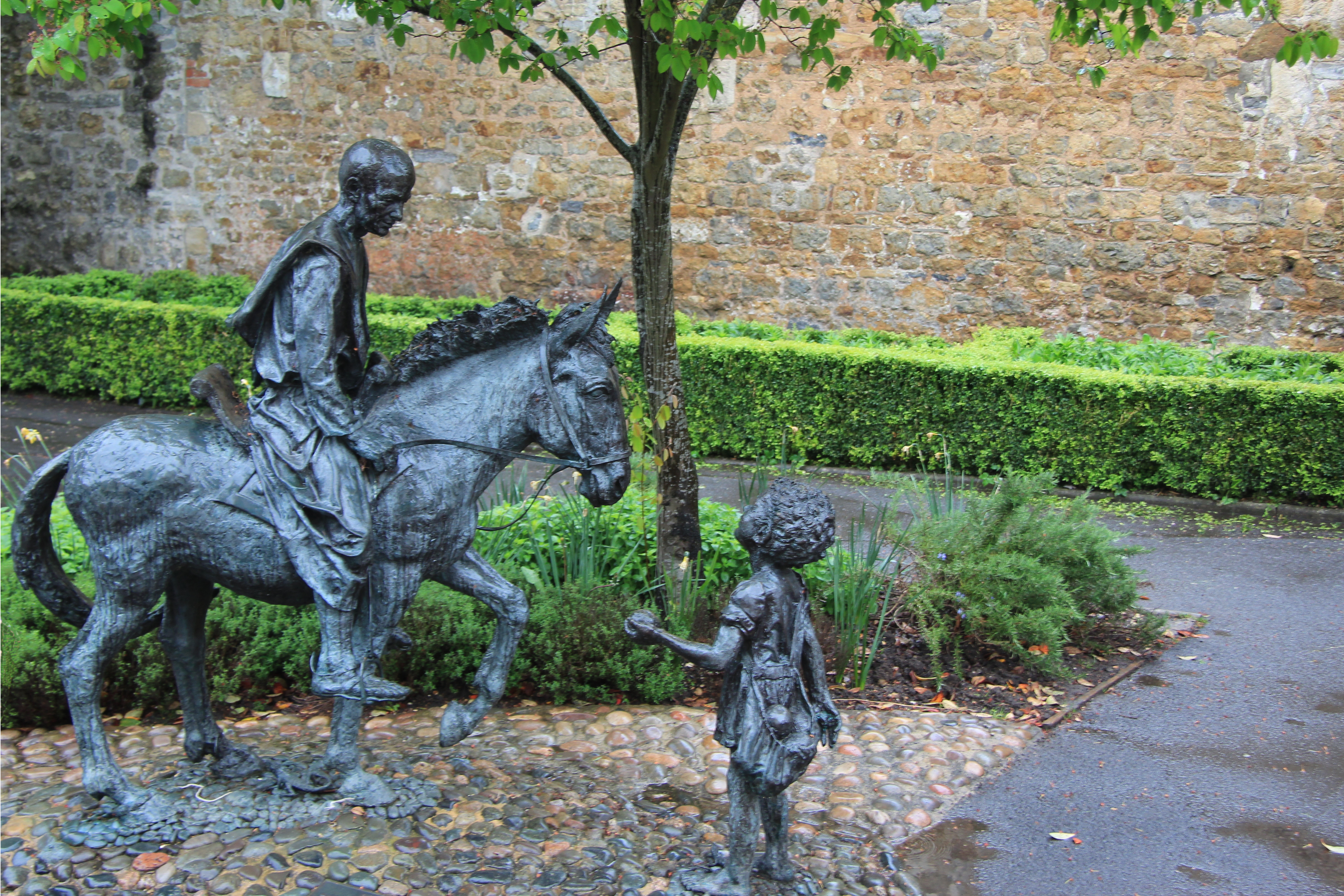 Rests of Glastonbury abbey